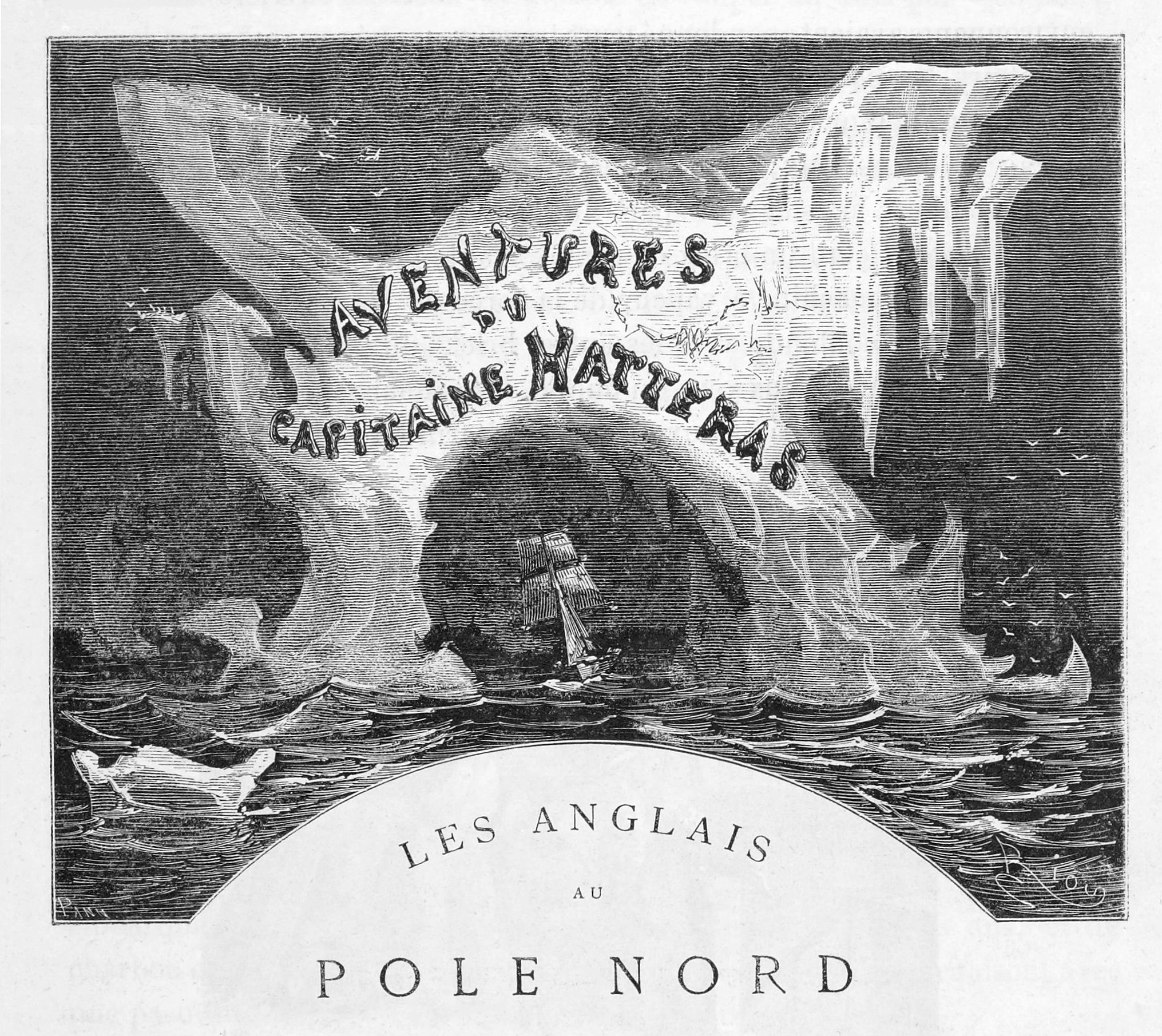 An illustration from Jules Verne's novel "Journeys and Adventures of Captain Hatteras", part I: "The English at the Noth Pole" drawn by Édouard Riou and/or Henri de Montaut.